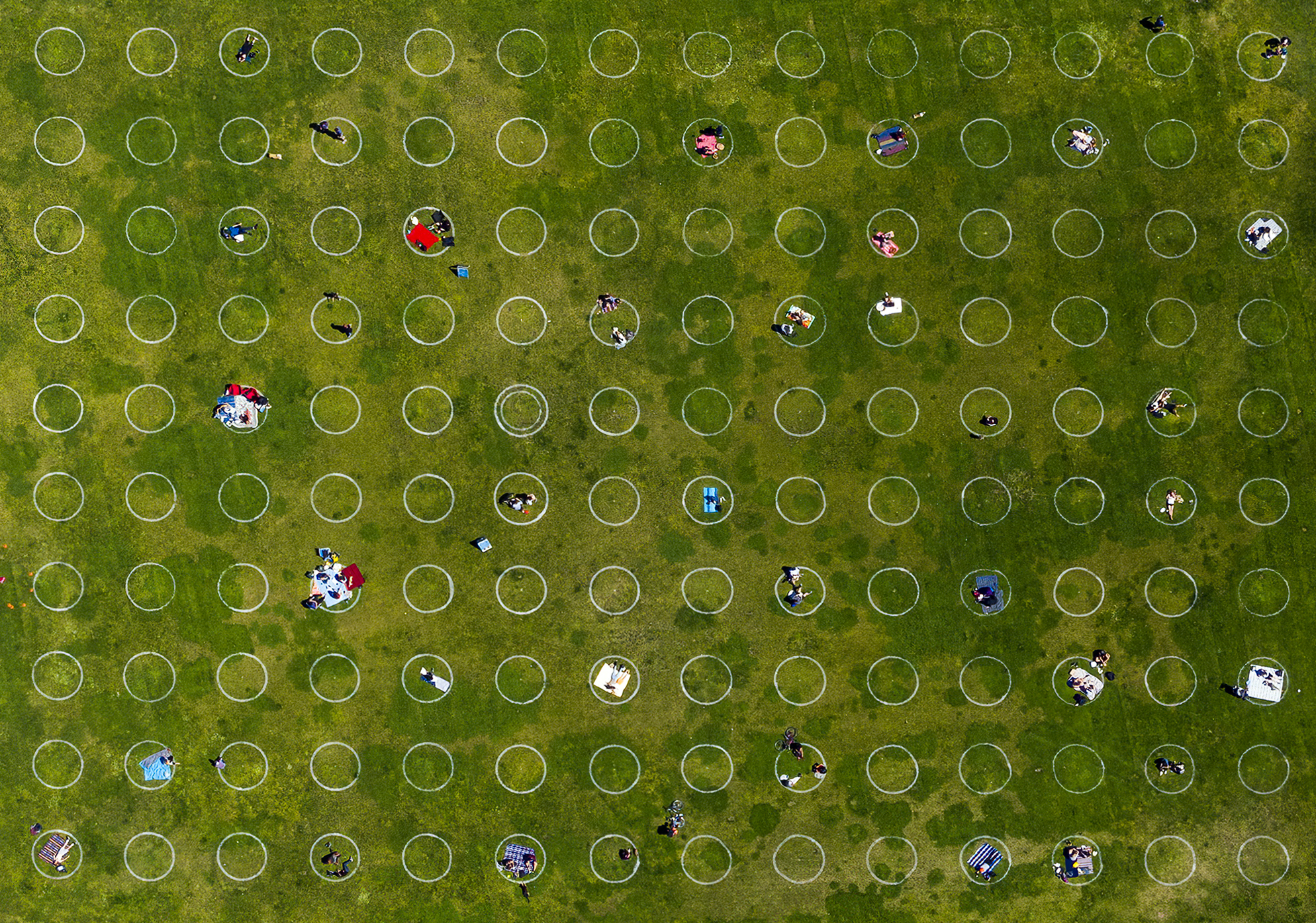 A series of white circles 10 feet (3.0 m) in diameter, spaced 8 feet (2.4 m) apart, are painted on the grass at Mission Dolores Park in San Francisco to encourage social distancing during the COVID-19 pandemic.